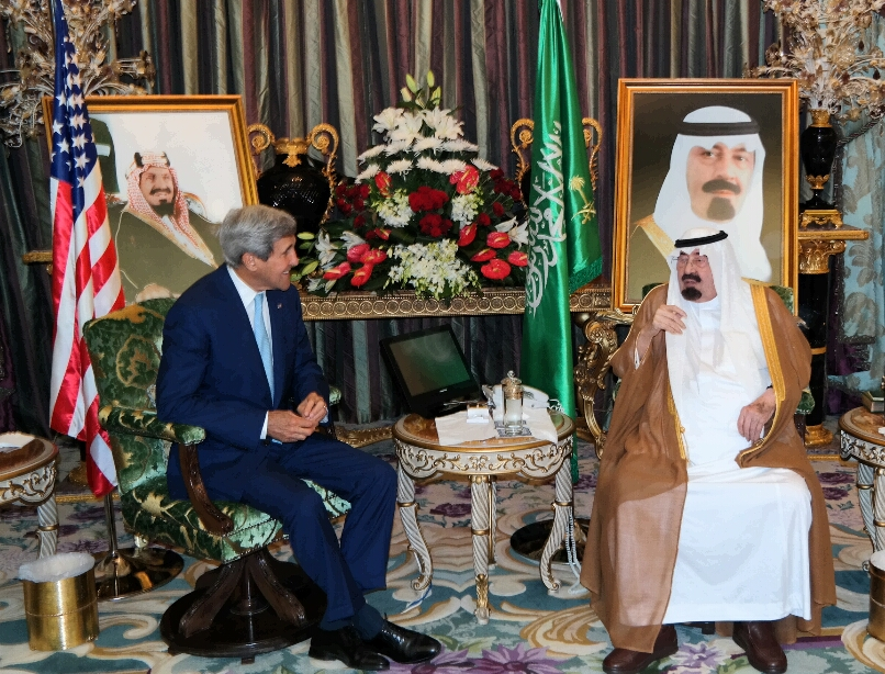 U.S Secretary of State John Kerry meets with Saudi King Abdullah bin Abdulaziz Al-Saud in Jeddah, Saudia Arabia on September 11, 2014. [State Department photo/ Public Domain]